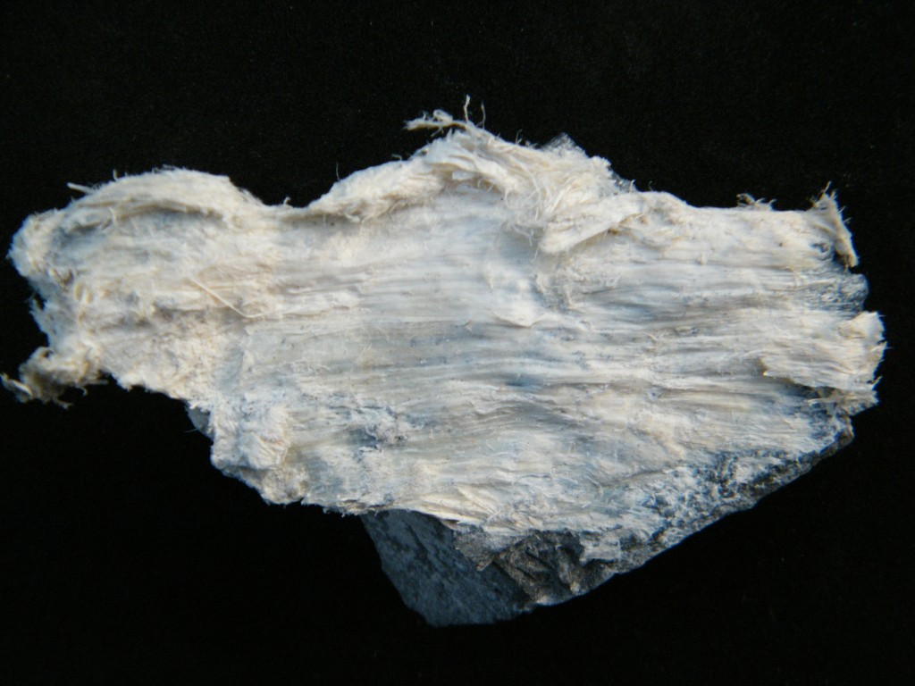 Palygorskite (Dimensions: 2.75" x 1.5" x 1.5", close-up (child photo) about 1 inch wide) Locality: Lone Jack Quarry, Glasgow, Rockbridge County, Virginia, USA Original description: Silky white palygorskite on calcareous dolostone from Virginia. Also known as "mountain leather" and attapulgite (after Attapulgus, Georgia). Child close-up photo. Palygorskite is a key component in the pigment "Maya Blue" used in Mayan ceramics, painting, and textiles. Sources of palygorskite have recently been found in Yucatan Peninsula sinkholes. Currently used in many manufacturing processes, and as an anti-diarrheal.